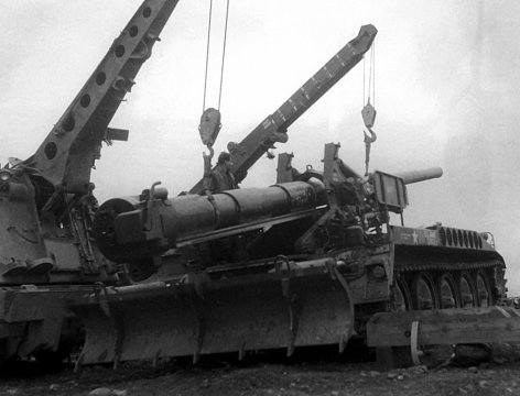 A crane replaces a barrel of one of the U.S. Army M107 175mm self-propelled guns stationed at Camp Carroll